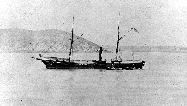 USS Aroostook (1862-1869) Photographed in Chinese waters, circa 1867-69. The original print is mounted on a carte de visite, marked "S. Sidney, Photo. China".